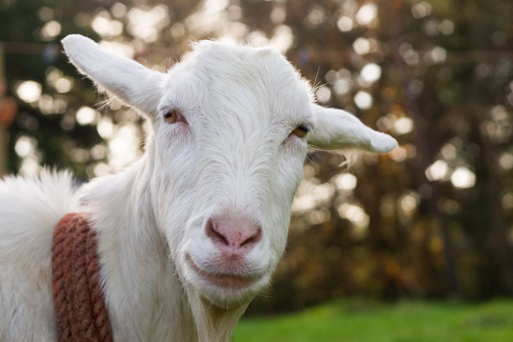 Bokeh produced by a 5-blade iris. Also - it's a goat.